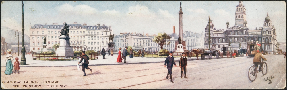 Panorama postcard of George Square, Glasgow, as it was around 1905: it shows the North British Station Hotel with its attic converted into a fourth storey. Reference: Graham, Scott (2004). North British Station Hotel; Mitchell Library, Glasgow Collection, Postcards Collection. TheGlasgowStory.